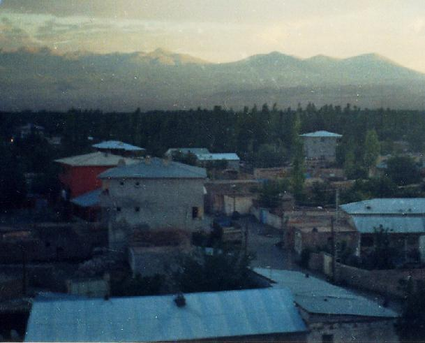 Küllük Village, Iğdır